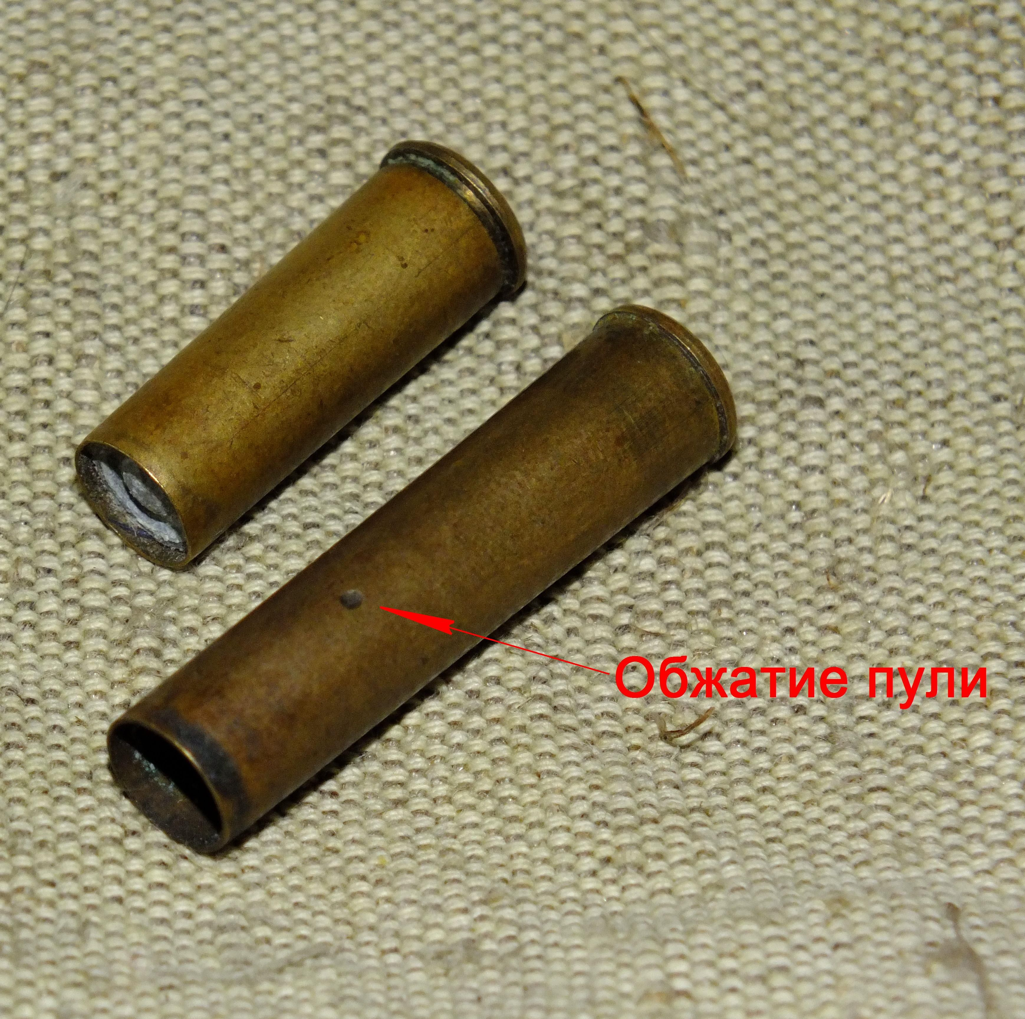 Top: 7.62 x 26 mm R Nagant for target revolver TOZ-49; bottom: 7.62 x 38 mm R Nagant for Nagant M1895